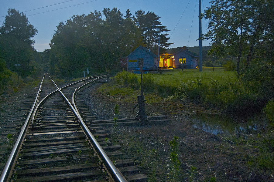 A number 6 low speed right hand turnout from the main line grade of the Belfast and Moosehead Lake Railroad, a 33.3 mile short line railroad located in Waldo County, Maine, opened in 1871, at MP 2.3 to the sidings of the City Point Central Railroad Museum. (Picture taken by moonlight.)